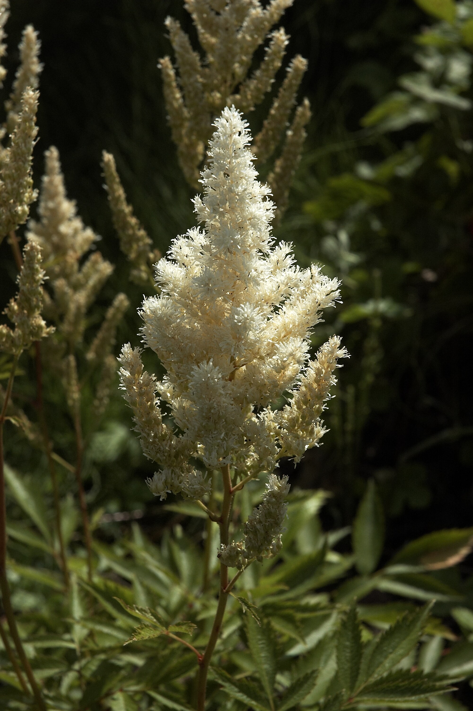 Astilbe Japonica 'Deutschland'. Picture taken in Belgium. Other photos of the same plant